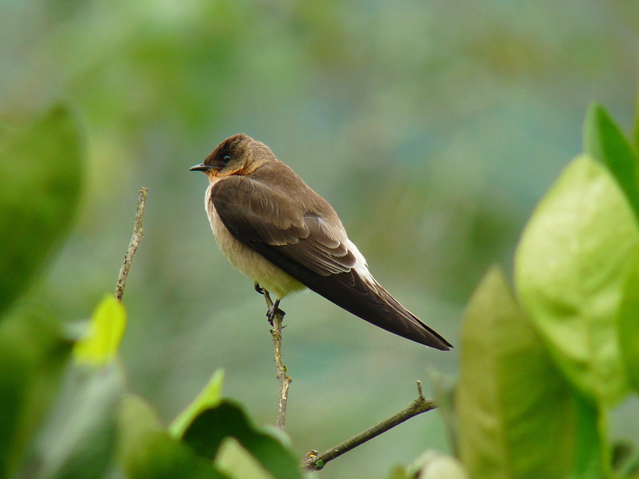 A Southern Rough-winged Swallow in Manizales, Caldas, Colombia.